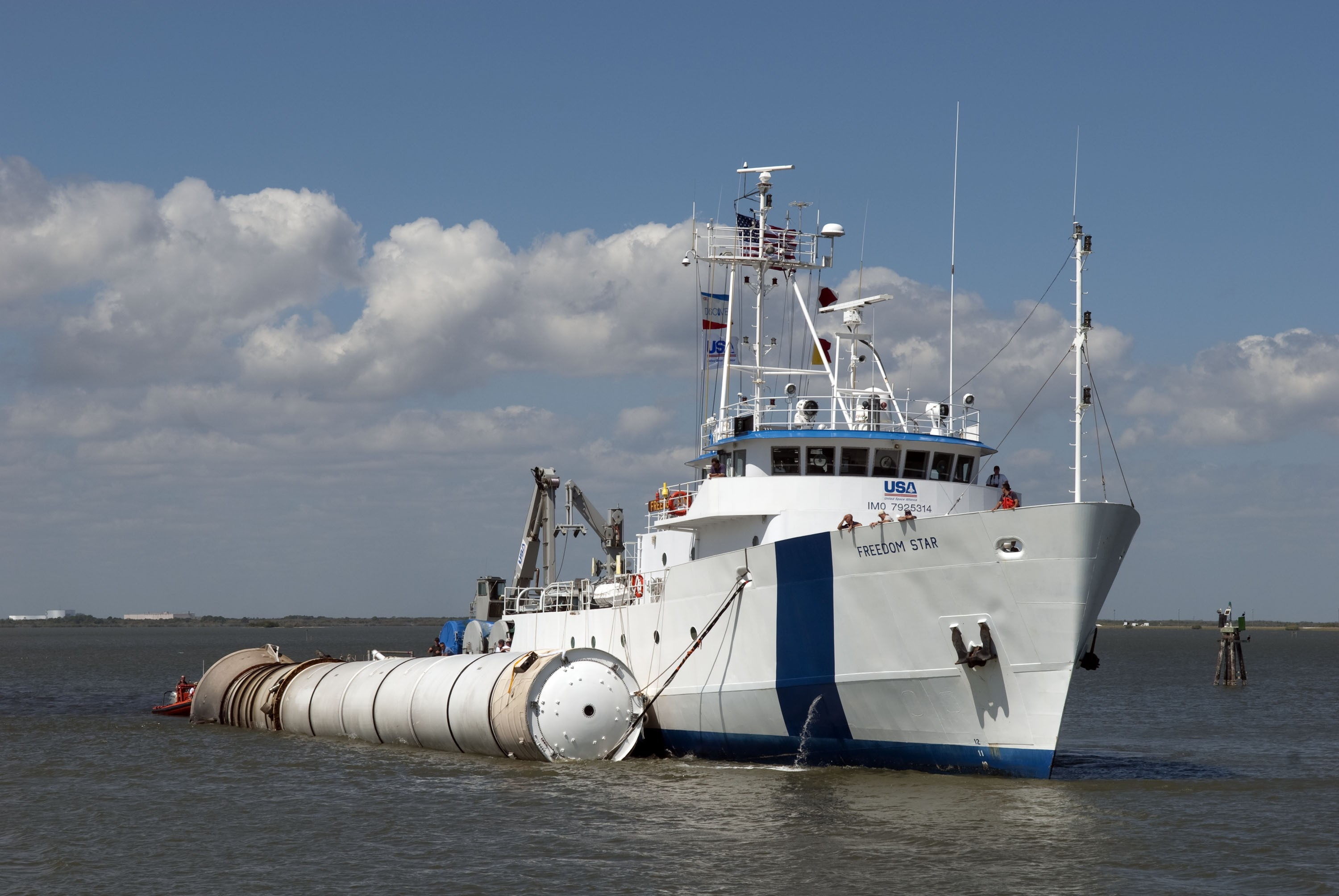 The solid rocket booster retrieval ship Freedom Star tows a left spent booster to the dock at Hangar AF on Cape Canaveral Air Force Station in Florida. The booster was used during space shuttle Discovery's final launch. The shuttle's two solid rocket booster casings and associated flight hardware are recovered in the Atlantic Ocean after every launch by Freedom Star and Liberty Star. The boosters impact the Atlantic about seven minutes after liftoff and the retrieval ships are stationed about 10 miles from the impact area at the time of splashdown. After the spent segments are processed, they will be transported to Utah, where they will be refurbished and stored, if needed.